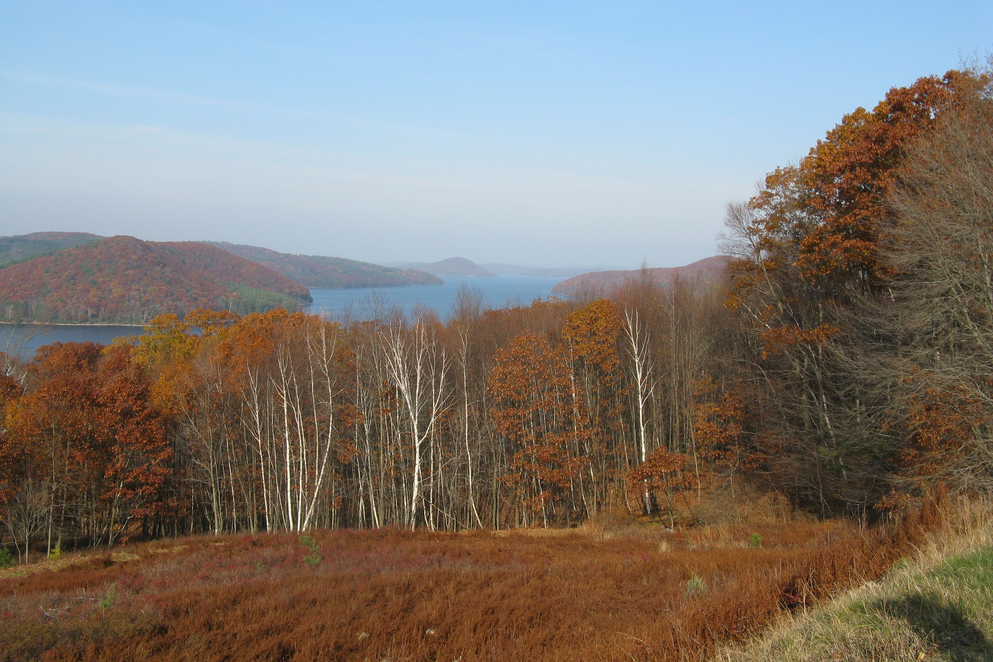 Overlooking Quabbin Reservoir from Quabbin Hill Rd, Ware Massachusetts - Overlooking former site of Enfield, now submerged